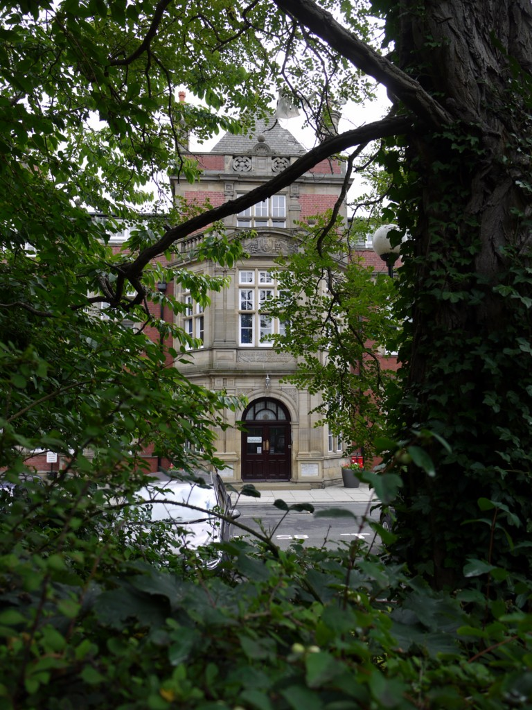 Former Fleming Memorial Hospital, Abbotsford Terrace